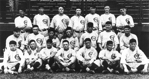 Photo of 1914 Chicago Chi-Feds baseball team.